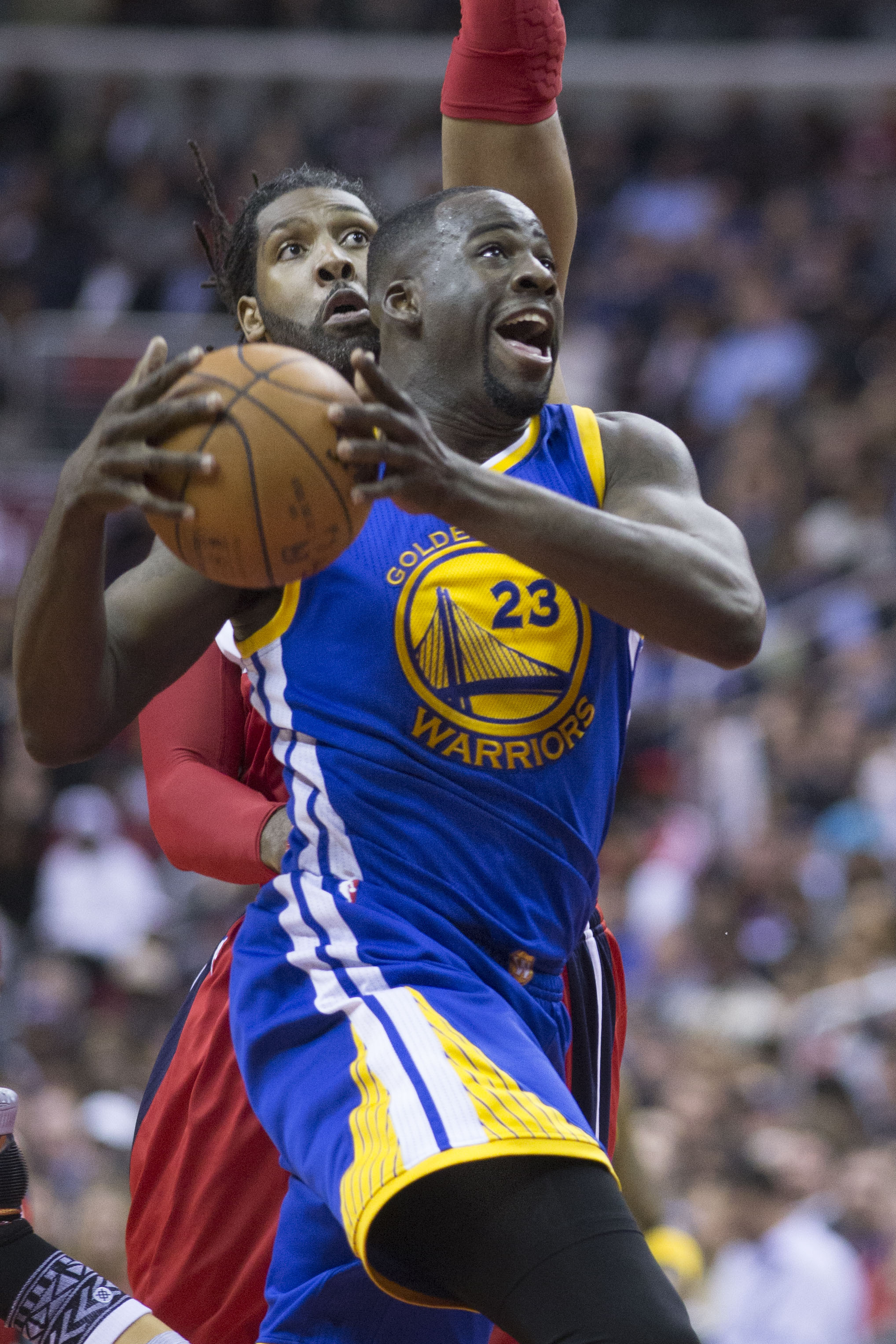 Draymond Green of Golden State Warriors against Washington Wizards